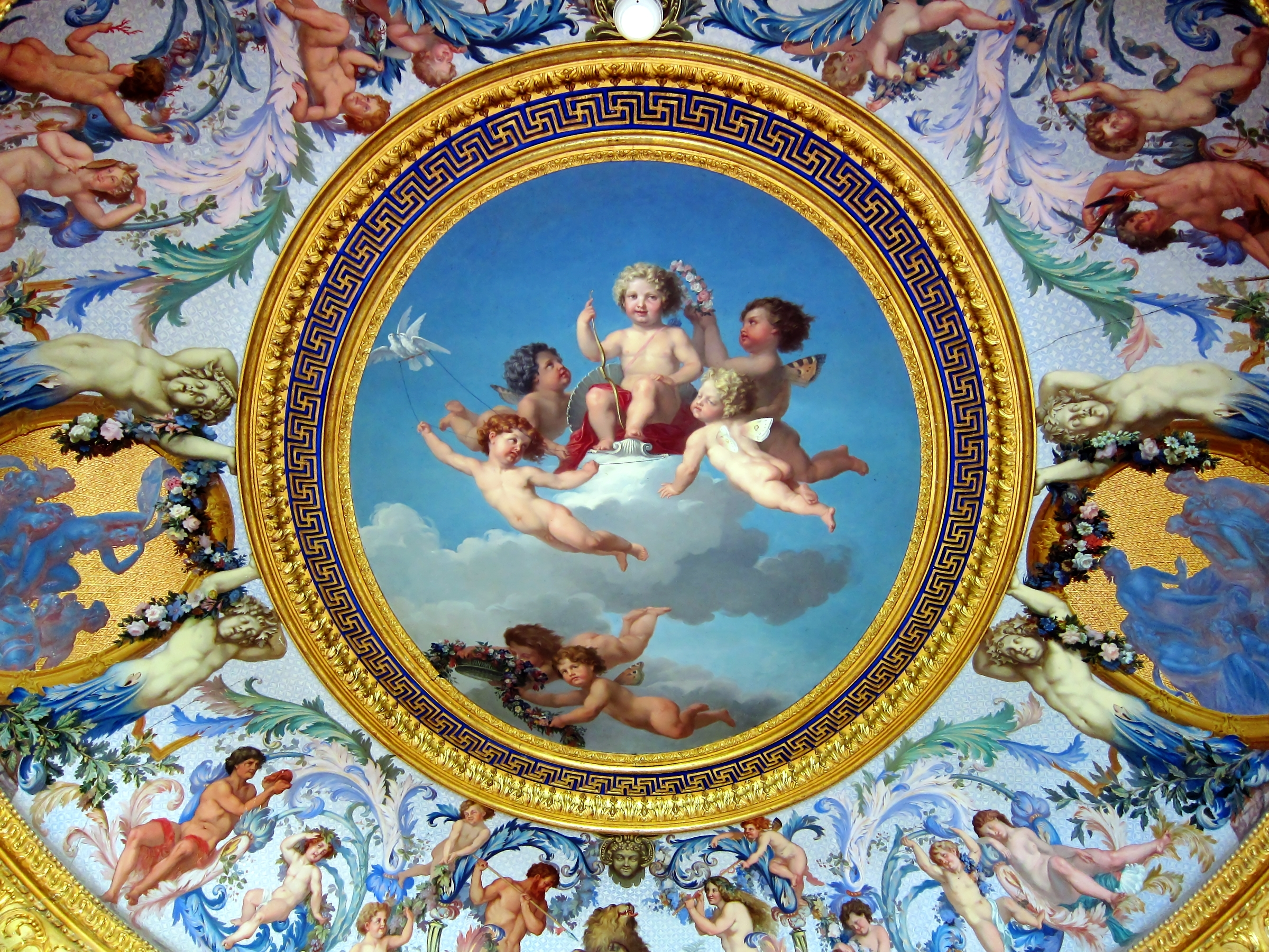 Ceiling of the bathroom closet in Vaux-le-Vicomte castle, France.